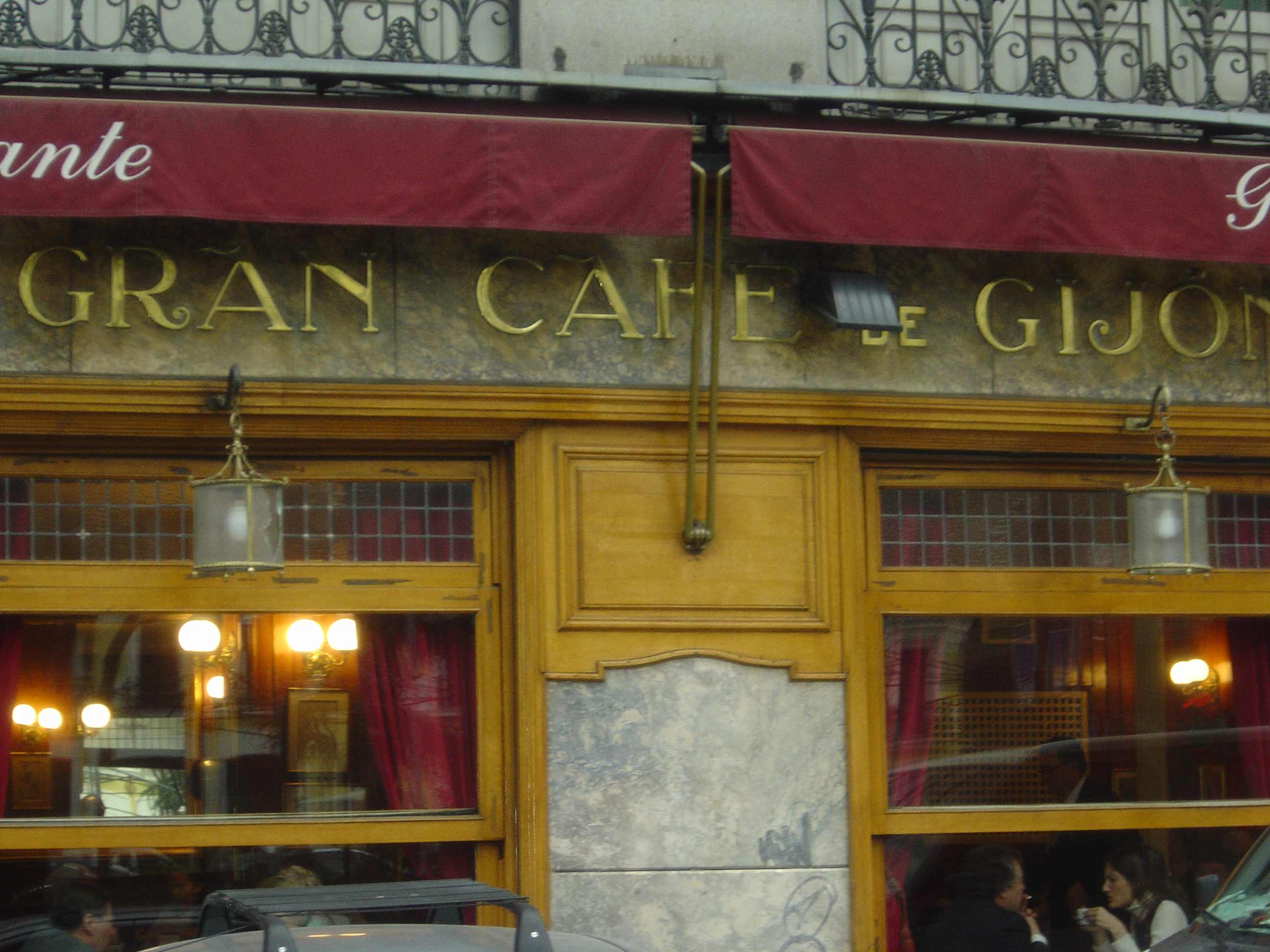 Cafe Gijόn in Madrid